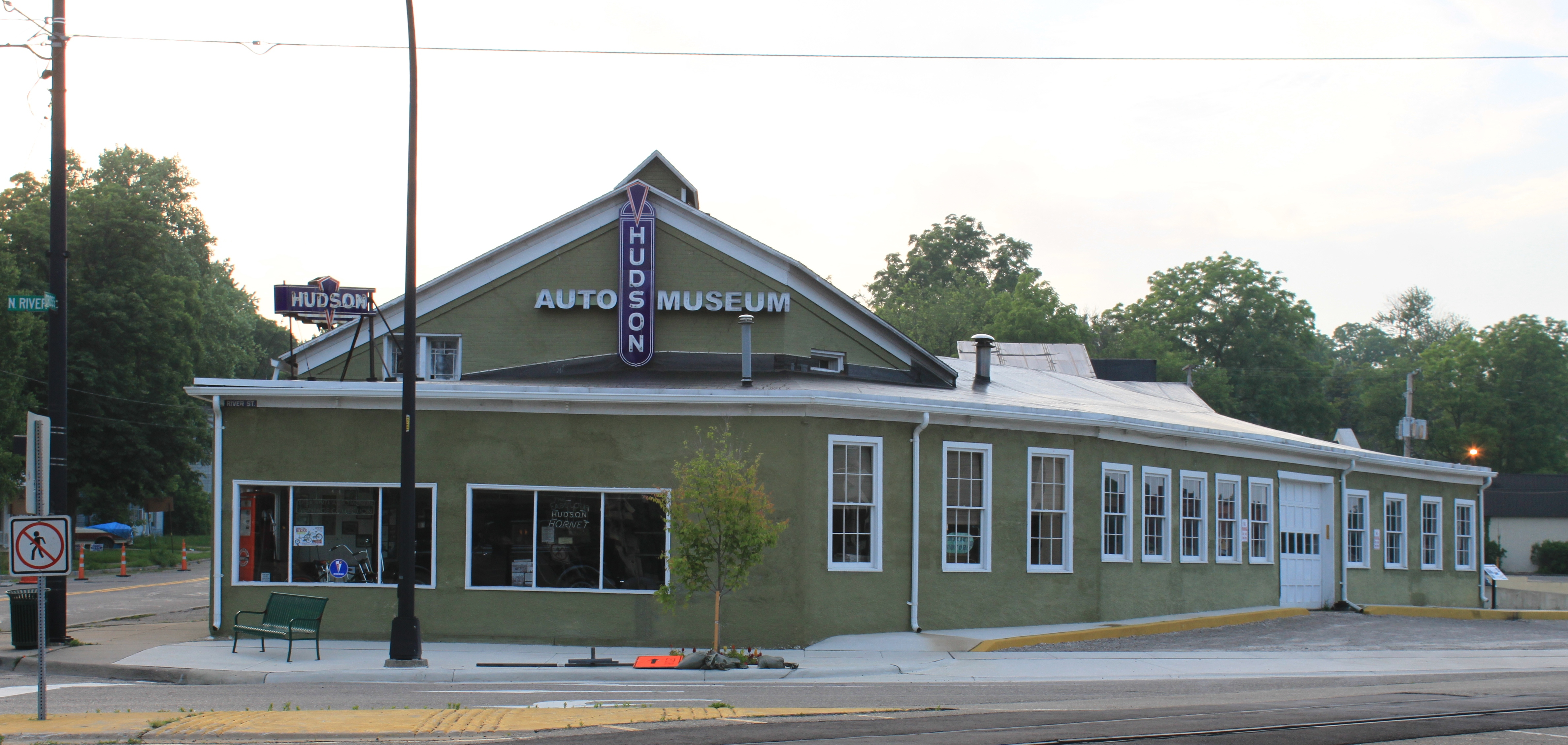 Ypsilanti Auto Heritage Museum, Ypsilanti Michigan